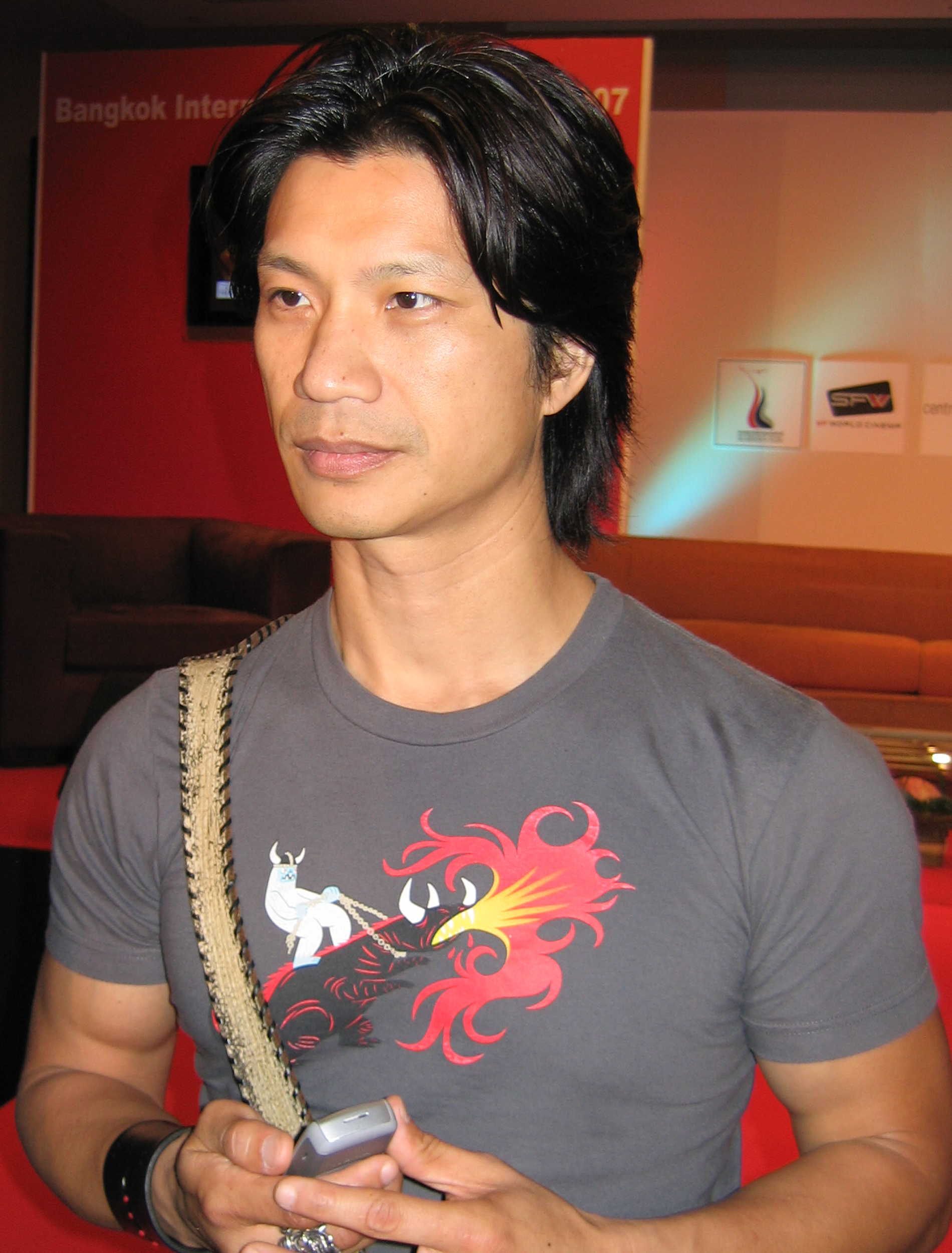 Vietnamese-American actor Dustin Nguyen at a press conference for The Rebel at the 2007 Bangkok International Film Festival at SF World in CentralWorld, Bangkok.